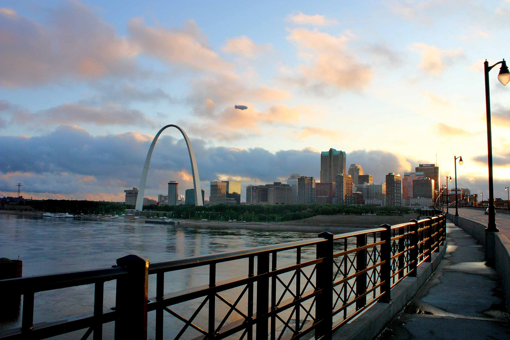 St Louis Skyline